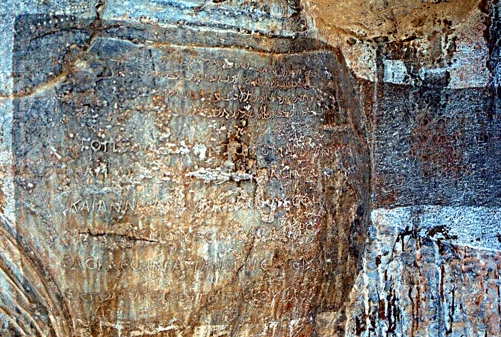 Sassanid relief at Naqsh-e Rajab, Fars, Iran ; 3rd century CE. Detail of a trilingual inscription in parthian pehlevi, middle persian pehlevi and greek, on the chest of Shapur's horse, on the relief of Shapur's parade.